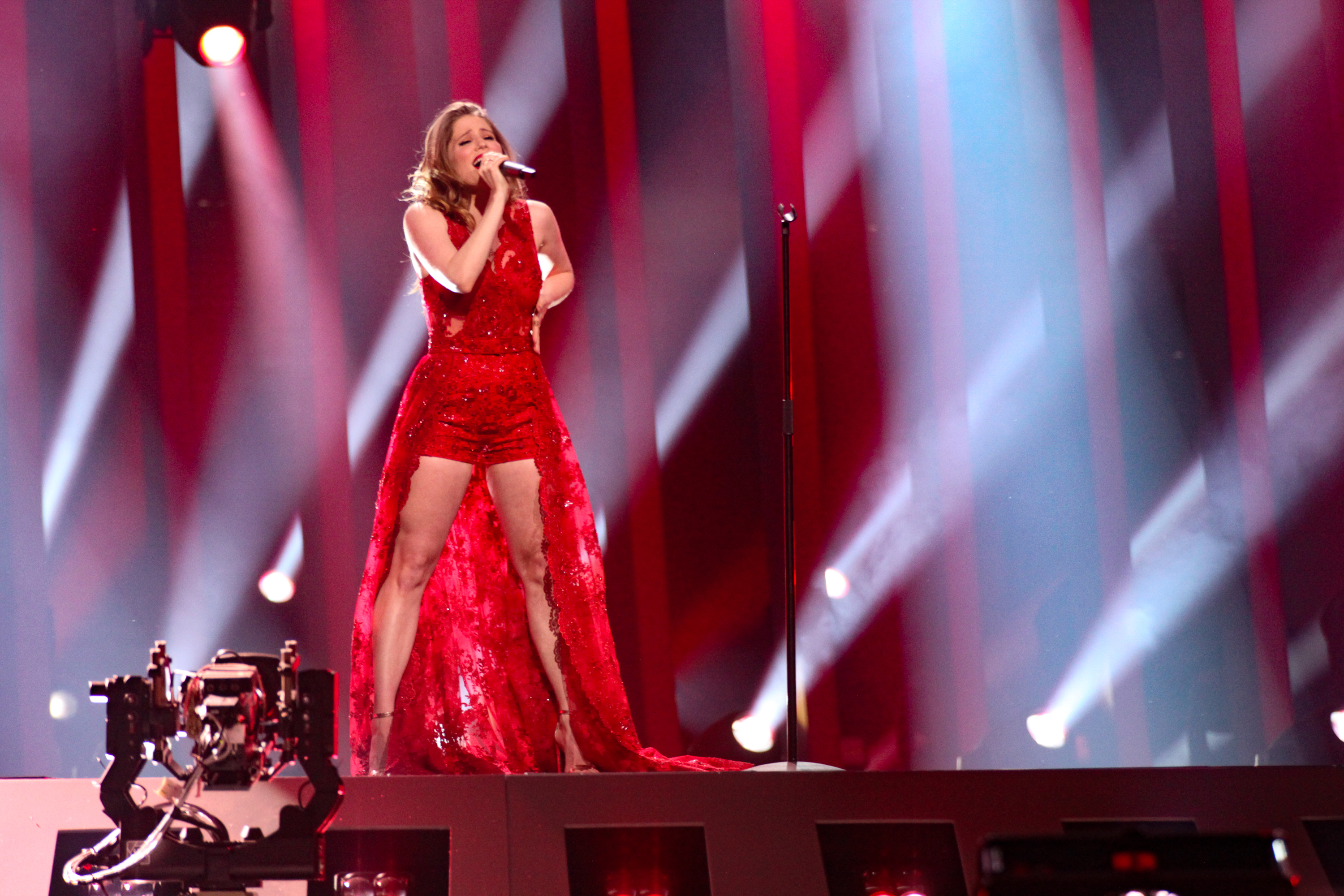 Laura Rizzotto representing Latvia with the song "Funny Girl" during a rehearsal before the second semi final of the Eurovision Song Contest 2018 in Lisbon.